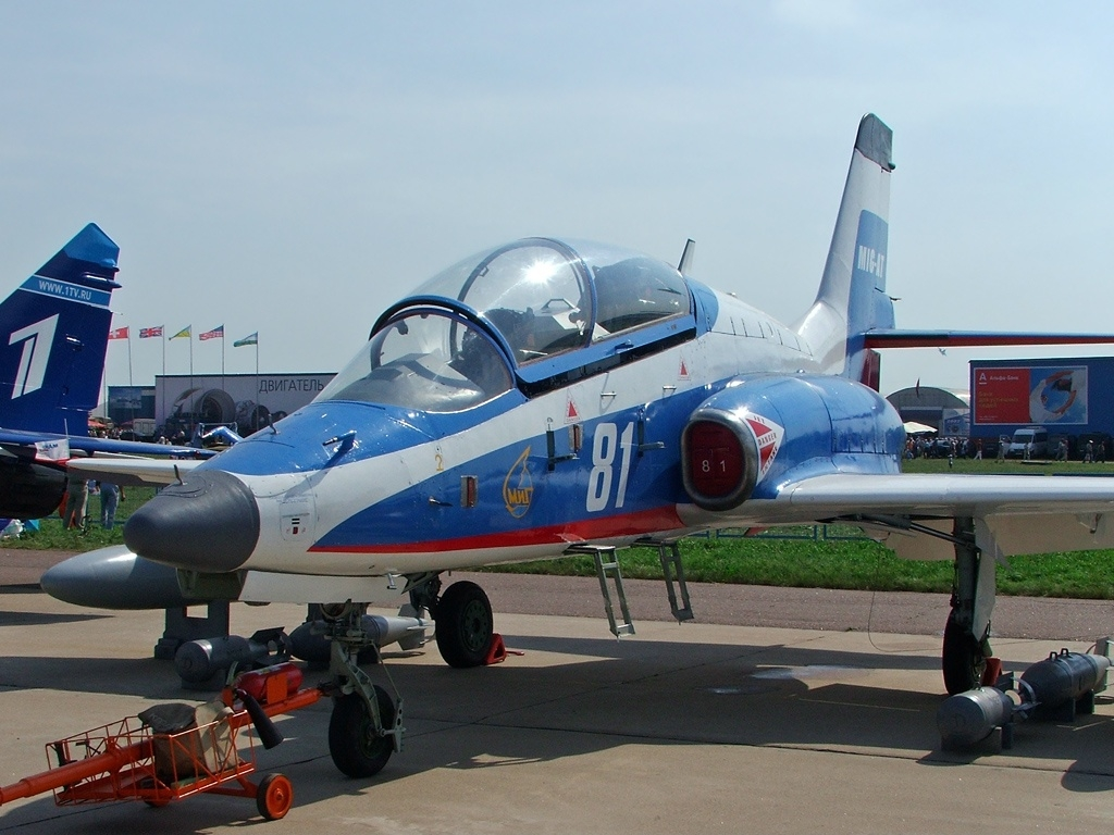 MiG-AT advanced trainer at MAKS-2007 airshow